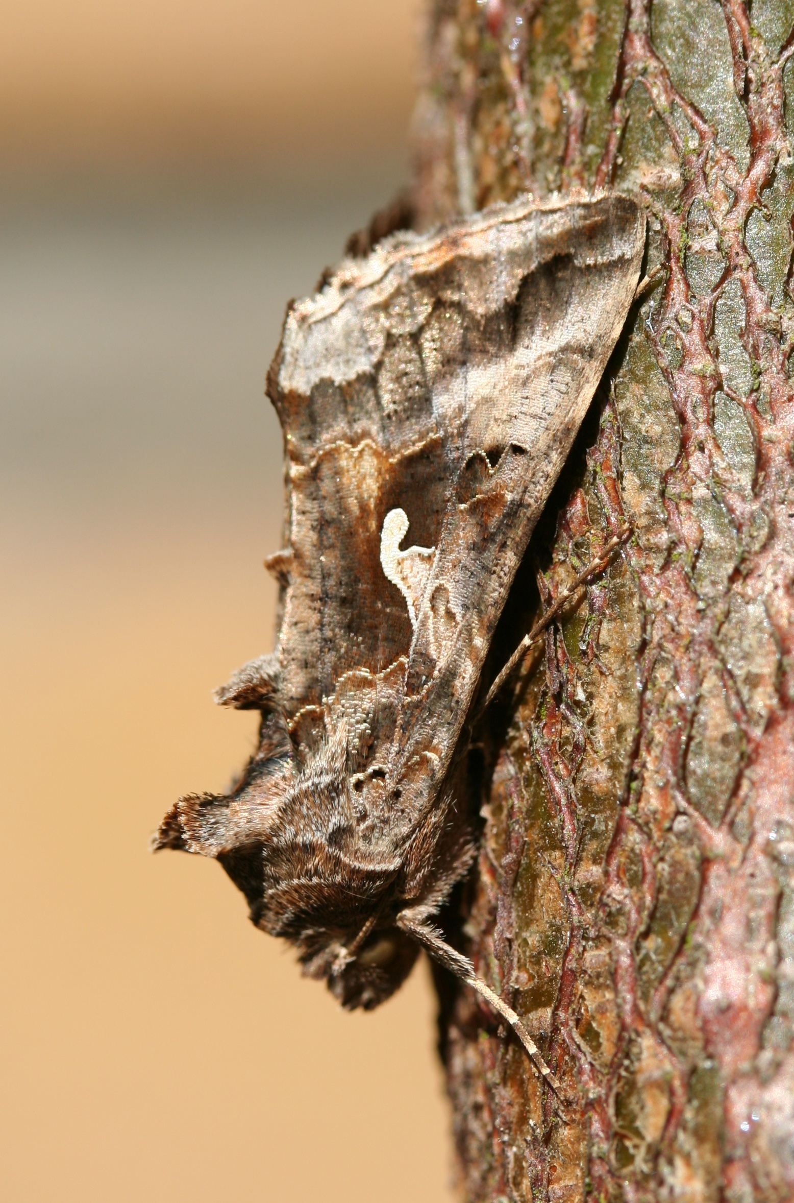 Autographa gamma 13 July 2006 IJmuiden, the Netherlands